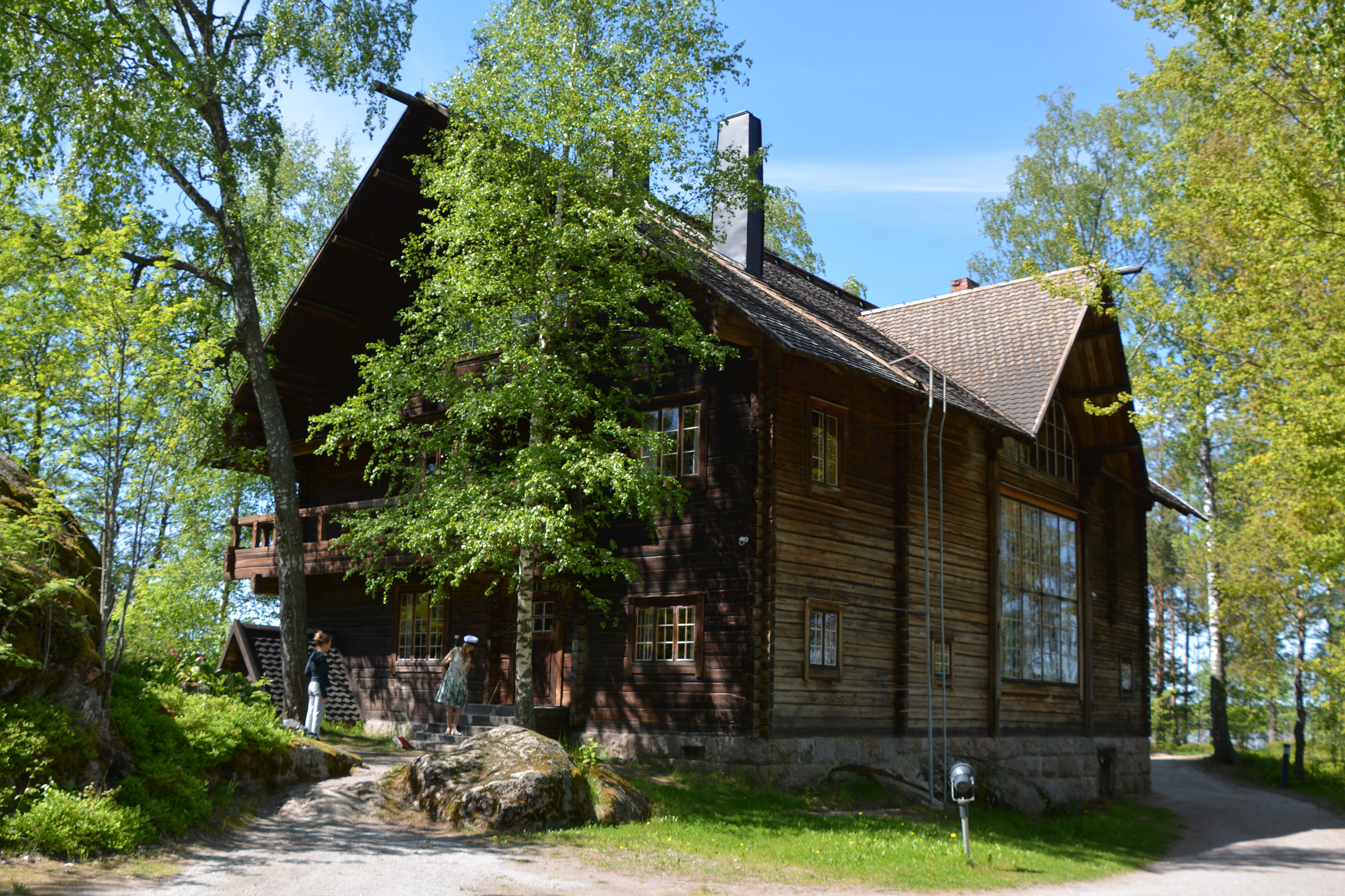 Halosenniemi